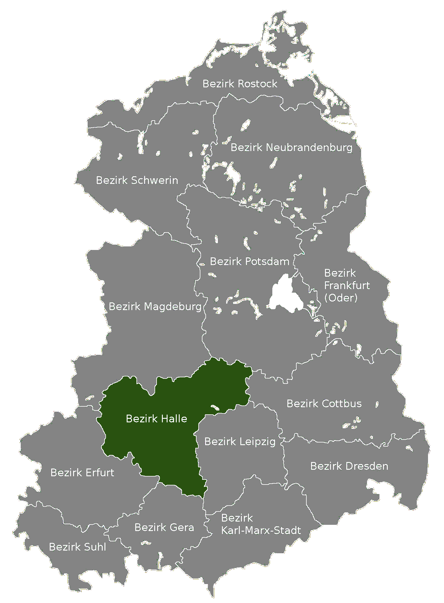 Map based on German Wikipedia